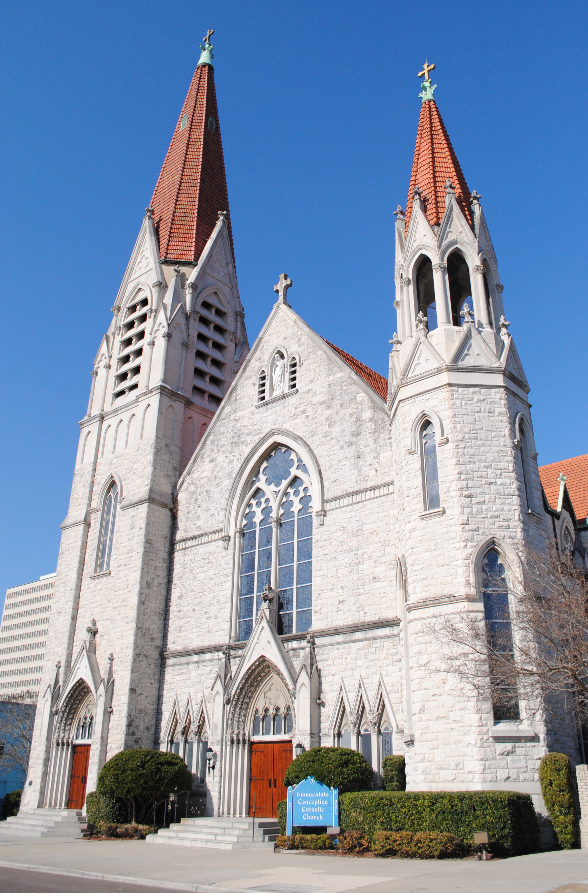 A photo of Church of the Immaculate Conception in Jacksonville, Florida.